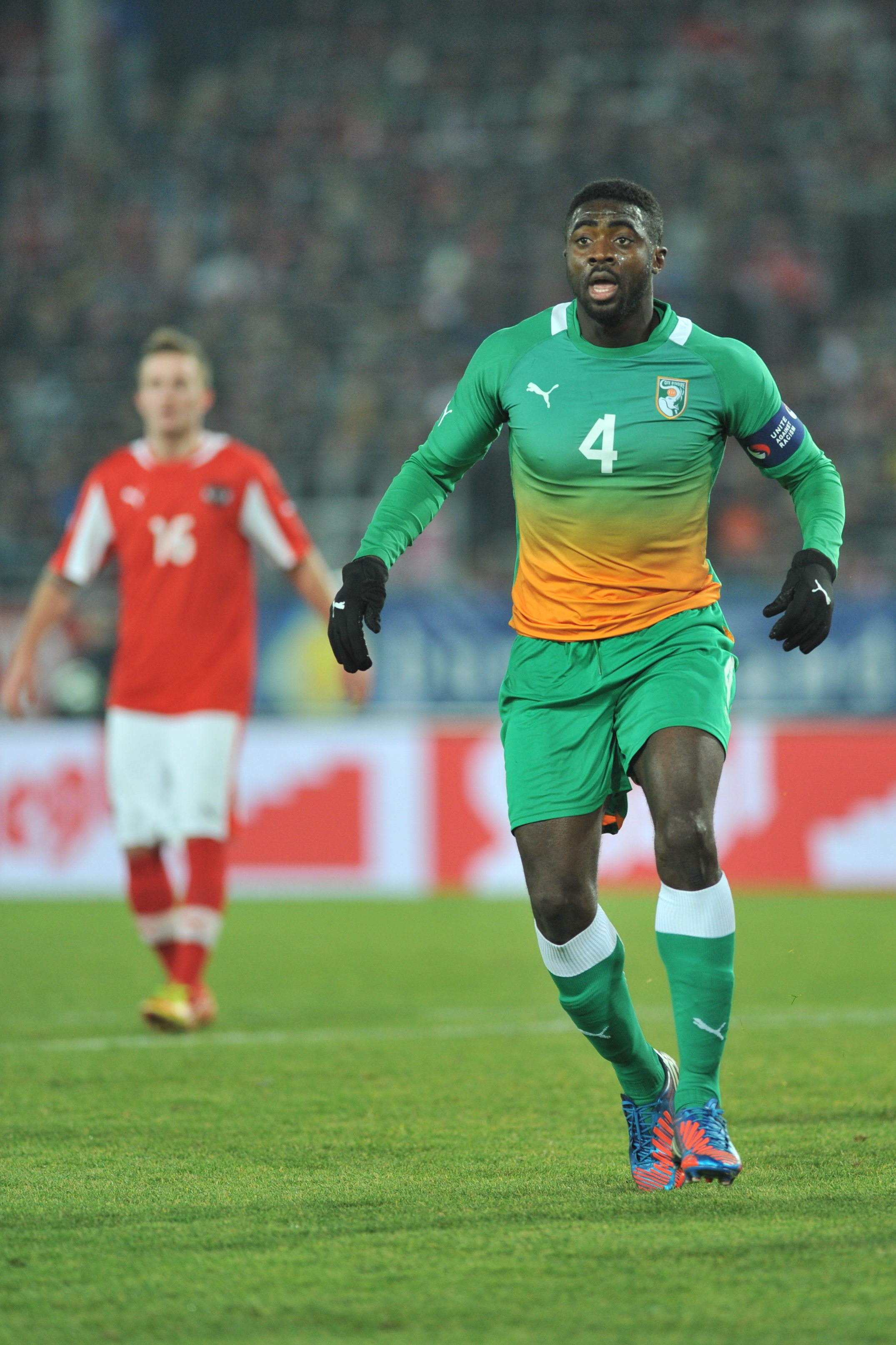 ÖFB freundschaftliches Länderspiel - Österreich vs Elfenbeinküste am 14. November 2012 The making of this work was supported by Wikimedia Austria. For other files made with the support of Wikimedia Austria, please see the category Supported by Wikimedia Österreich. Elfenbeinküste Nr. 4:Kolo Touré